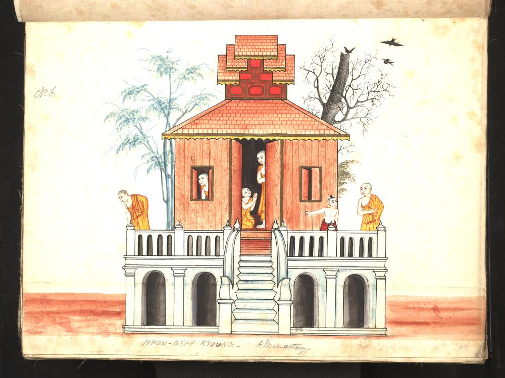 Watercolour painting by an unknown Burmese artist depicting 19th century Burmese life.